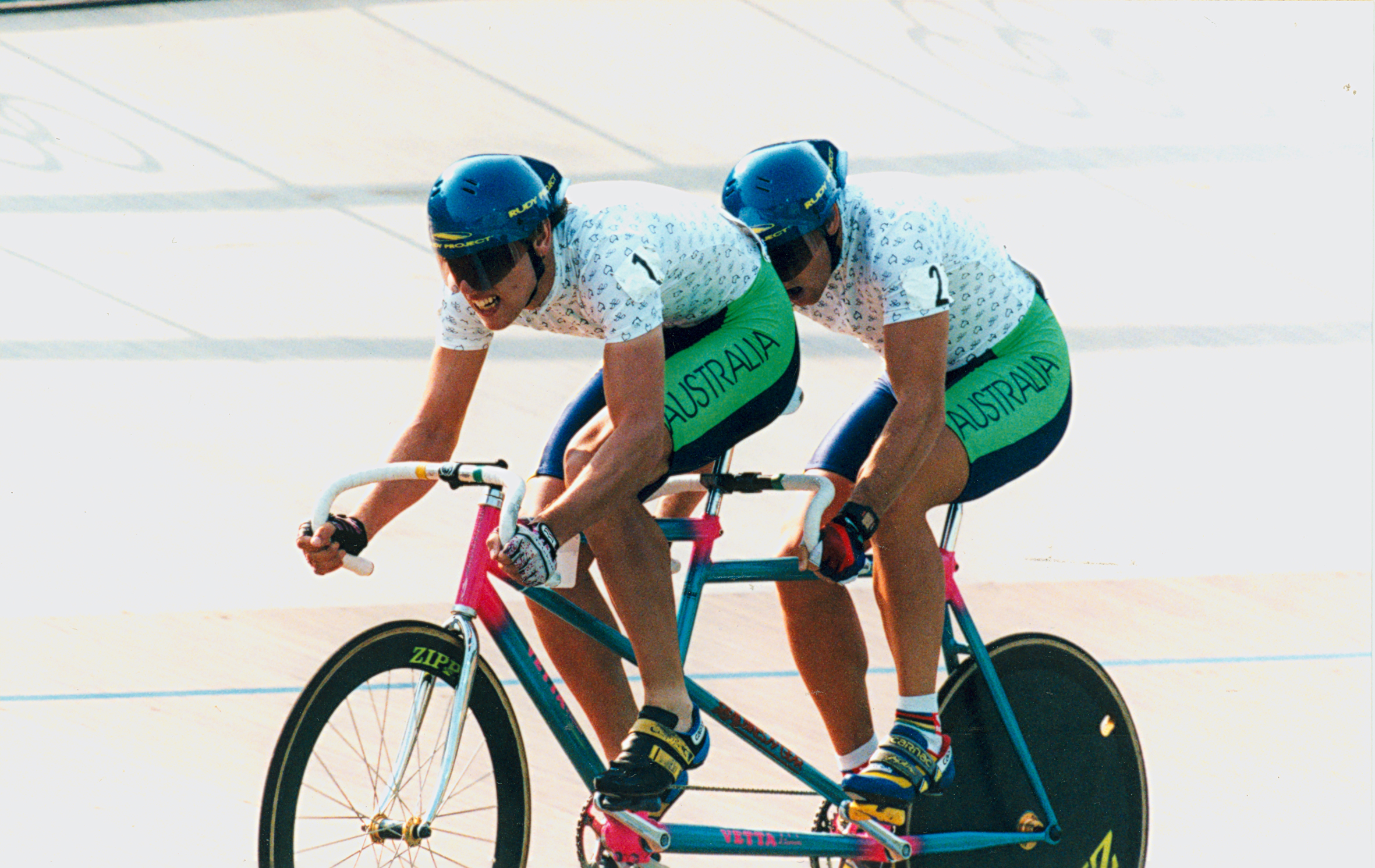 Australian men's tandem team cyclists Eddie Hollands (sighted pilot, left) and Paul Clohessy (vision impaired, right) racing at the Atlanta 1996 Paralympic Games.